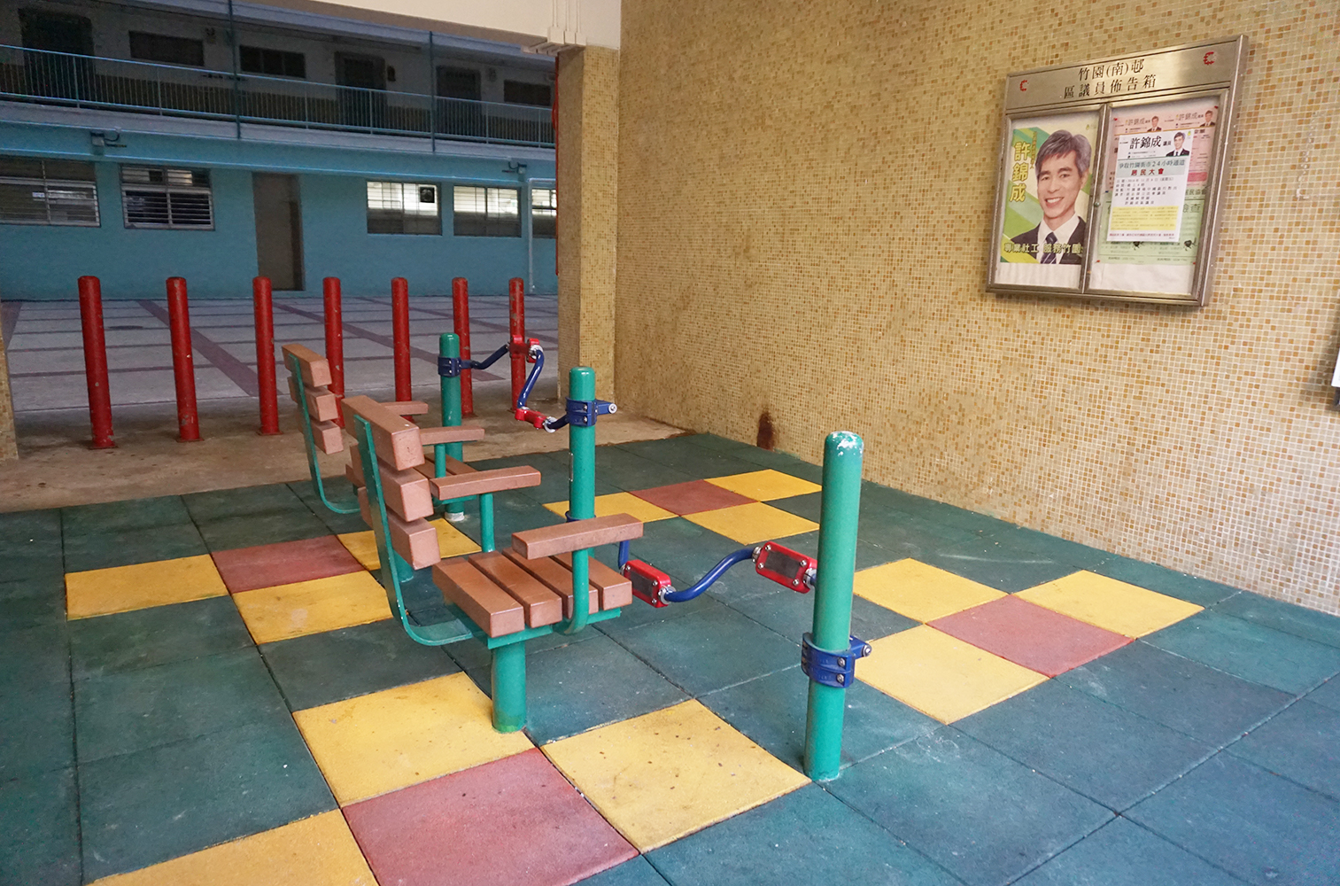 Chuk Yuen South Estate in Wong Tai Sin, Hong Kong.